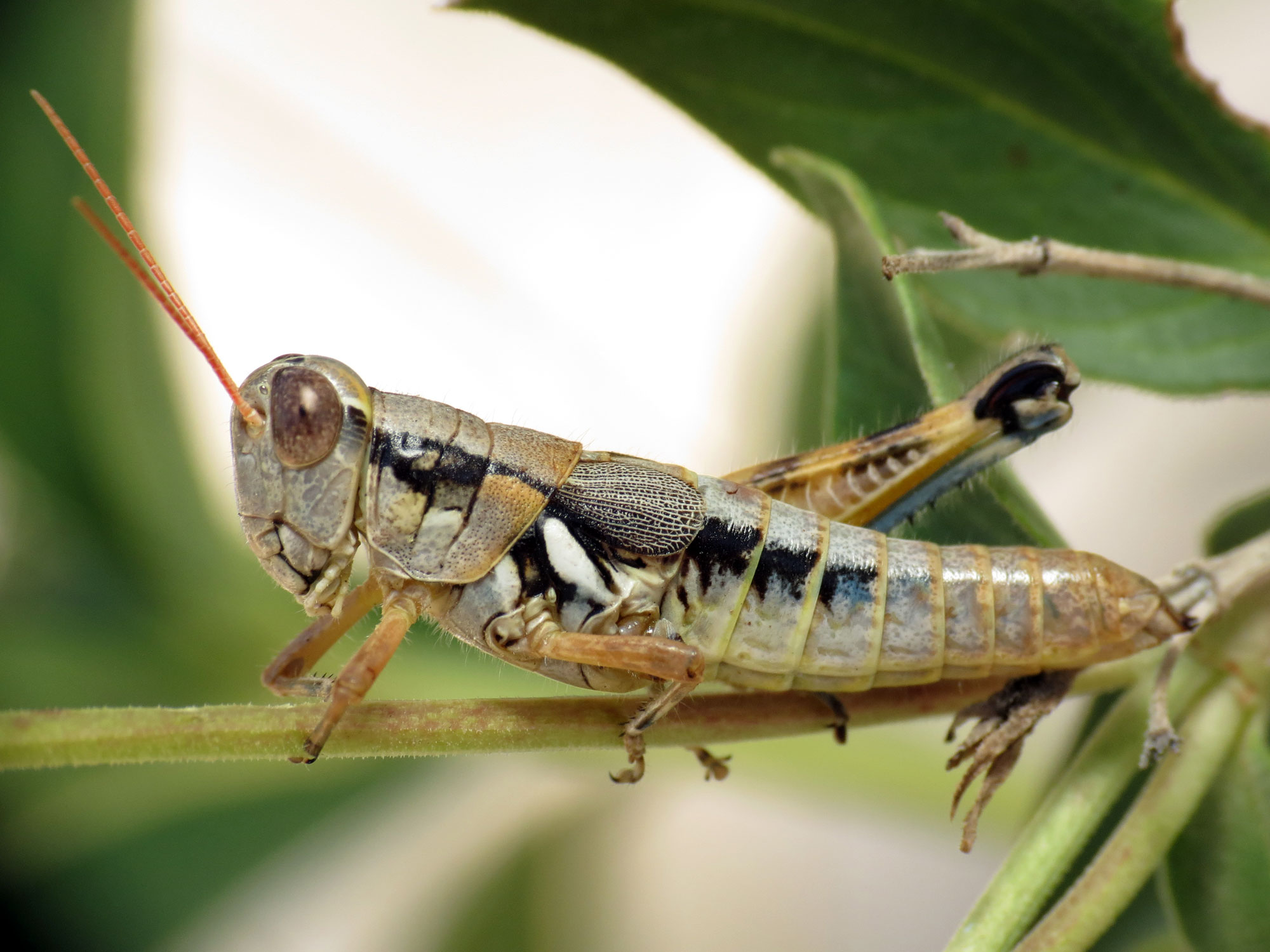 Phoetaliotes nebrascensis missing her left hindleg. Molino Basin, Santa Catalina Mountains, Pima County, Arizona, USA. 18 September 2012.